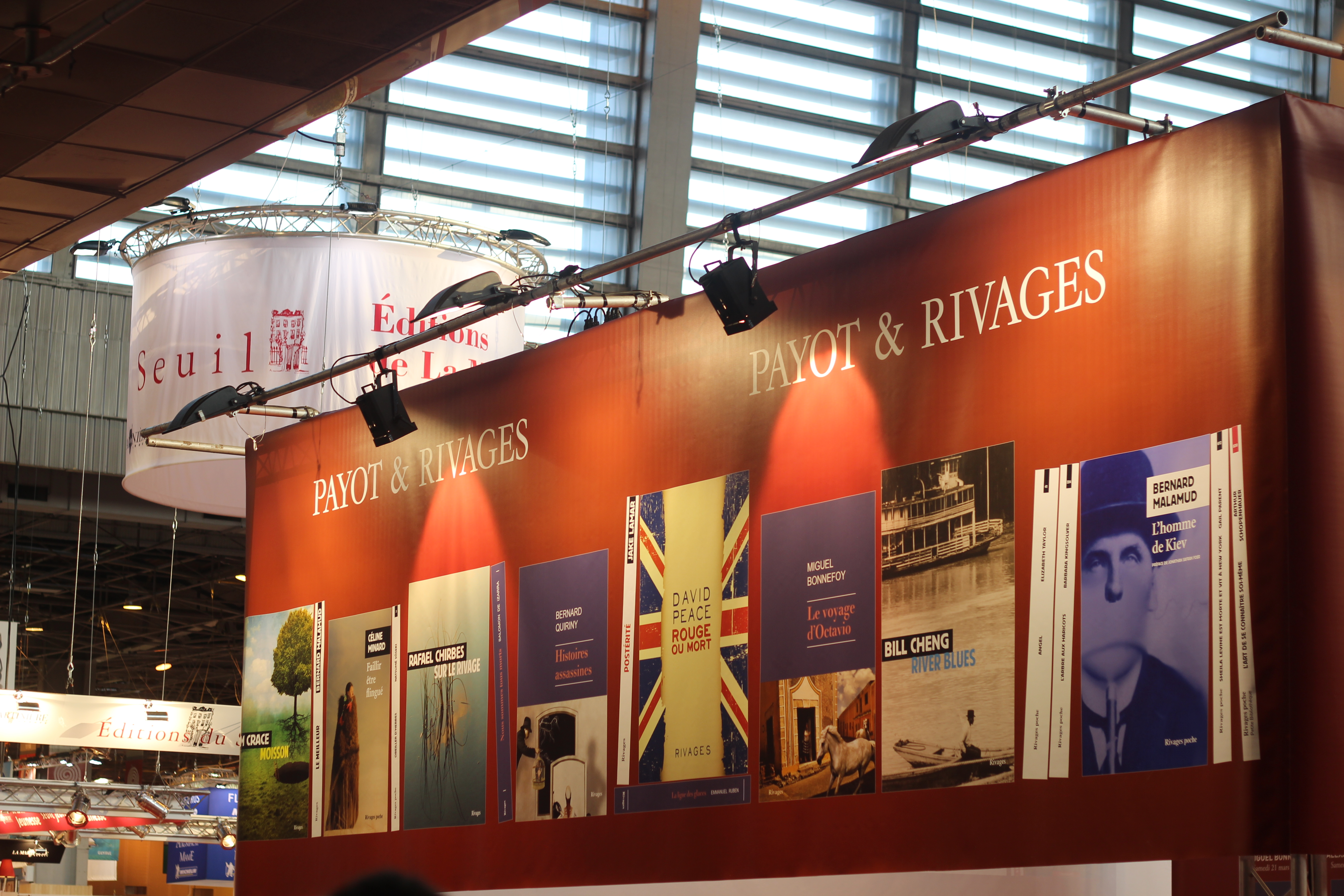 2015 Paris Book Fair, from 20 to 23 March 2015, Paris expo Porte de Versailles.